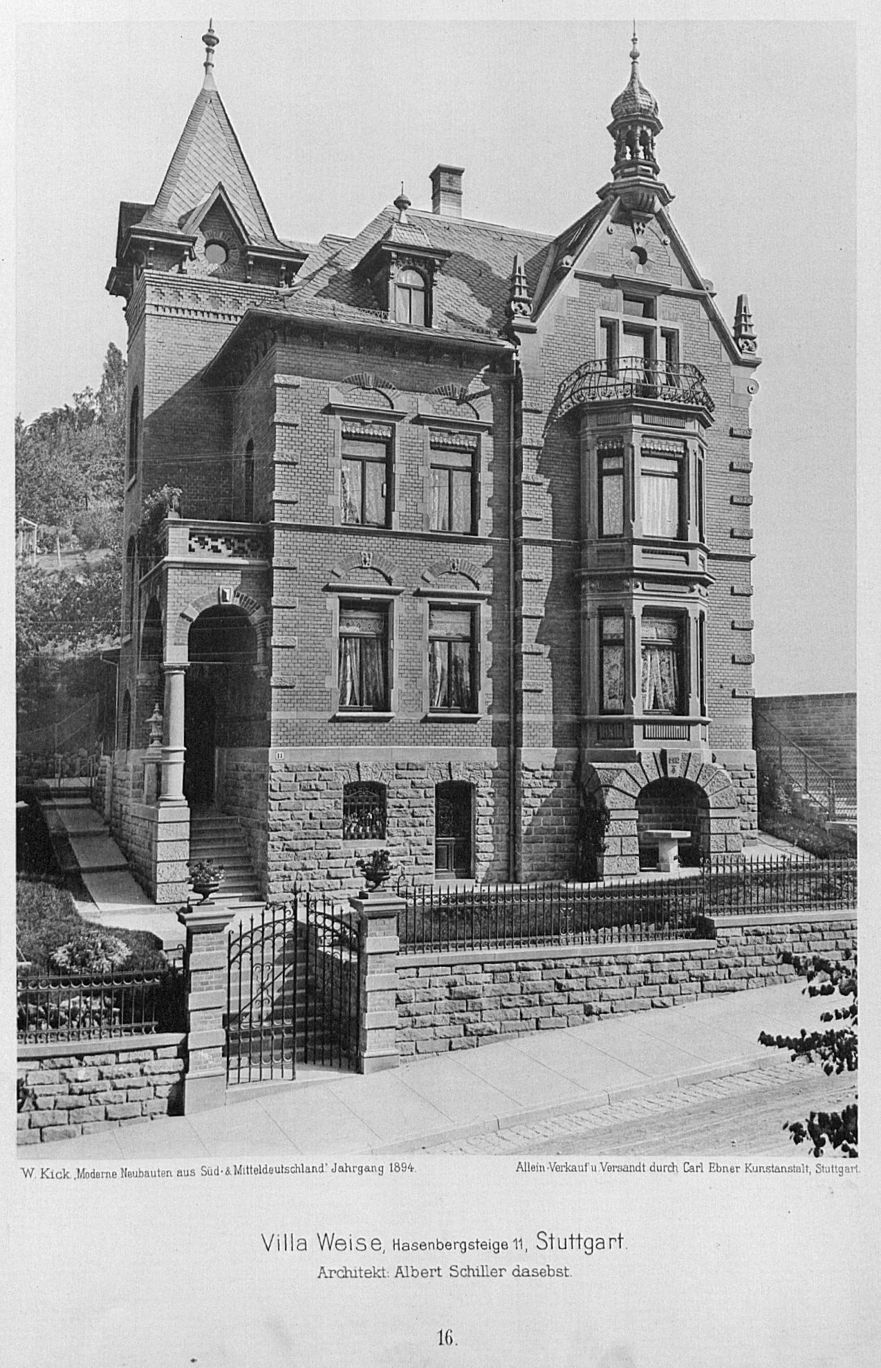 Villa Weise, Hasenbergsteige 11, Architekt Albert Schiller aus Stuttgart,Tafel 11, Kick Jahrgang I